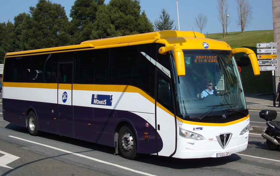 Noge Touring III coach (#1520, reg. 7024 GPJ) with Mercedes-Benz OC 500 RF 1842 chassis in Spain. Monbus from Lugo operator. Photo taken in Santiago de Compostela